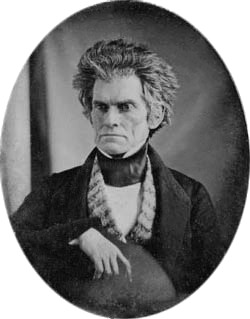 Vice President of the United States John C. Calhoun (19th-century daguerreotype)